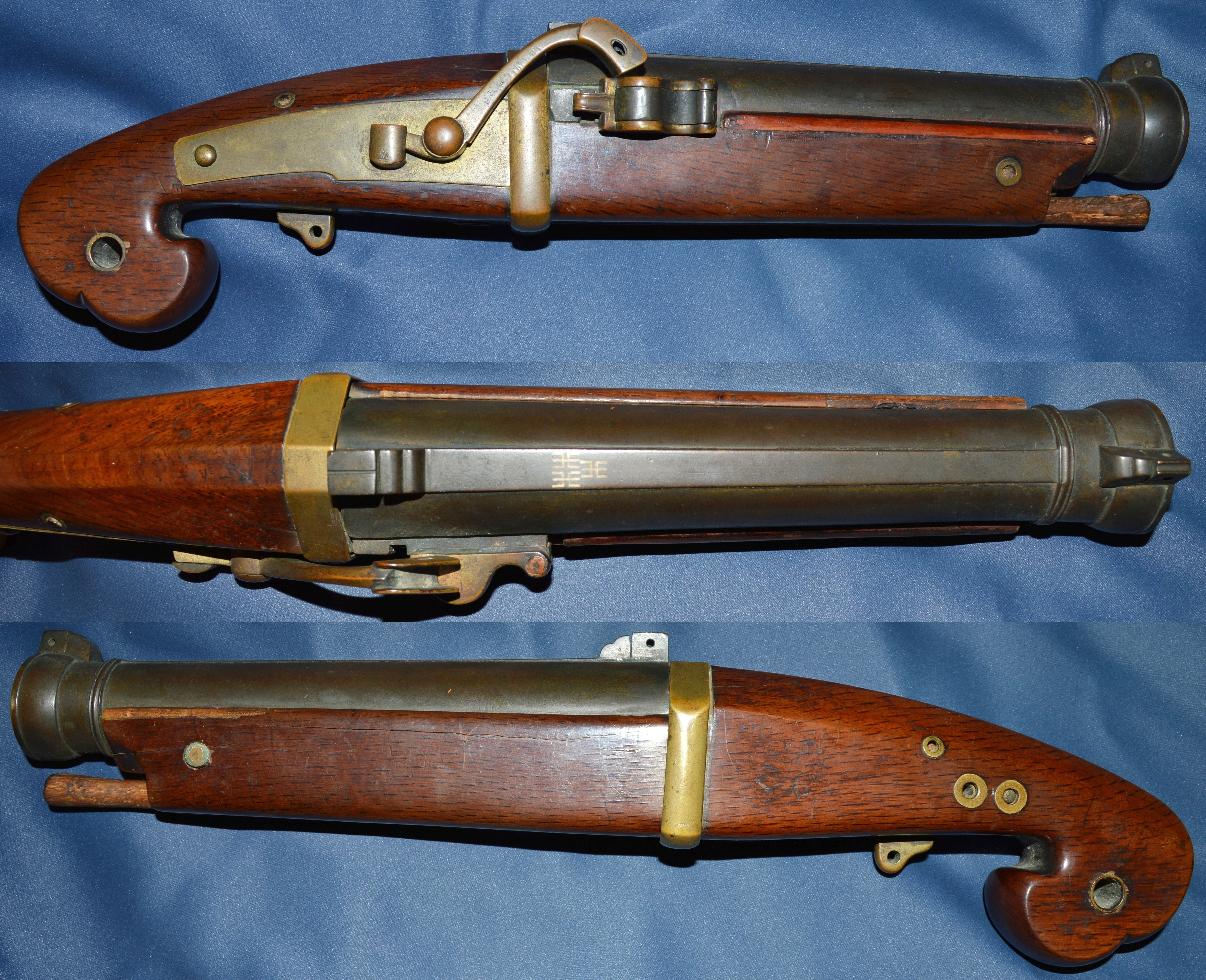 Bronze barreled Japanese small matchlock pistol(tan zutsu), 13.75in.